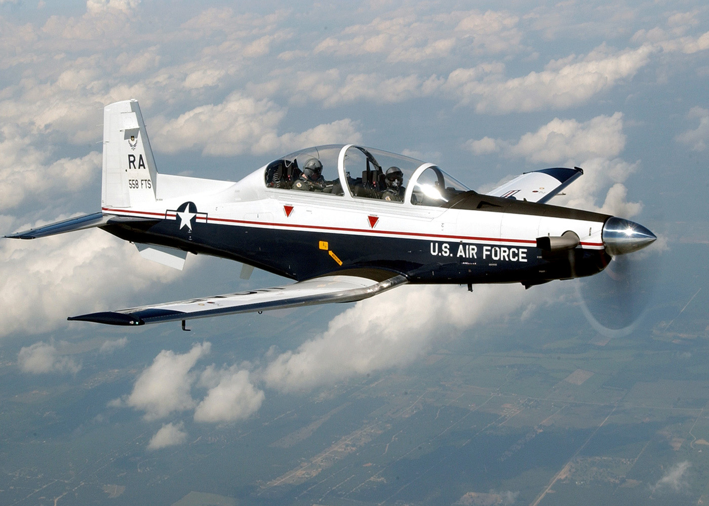 RANDOLPH AIR FORCE BASE, Texas -- The T-6A Texan II is a single-engine, two-seat primary trainer designed to train Joint Primary Pilot Training, or JPPT, students in basic flying skills common to U.S. Air Force and Navy pilots. The trainer is phasing out the aging T-37 fleet throughout Air Education and Training Command. (U.S. Air Force photo by Master Sgt. David Richards)